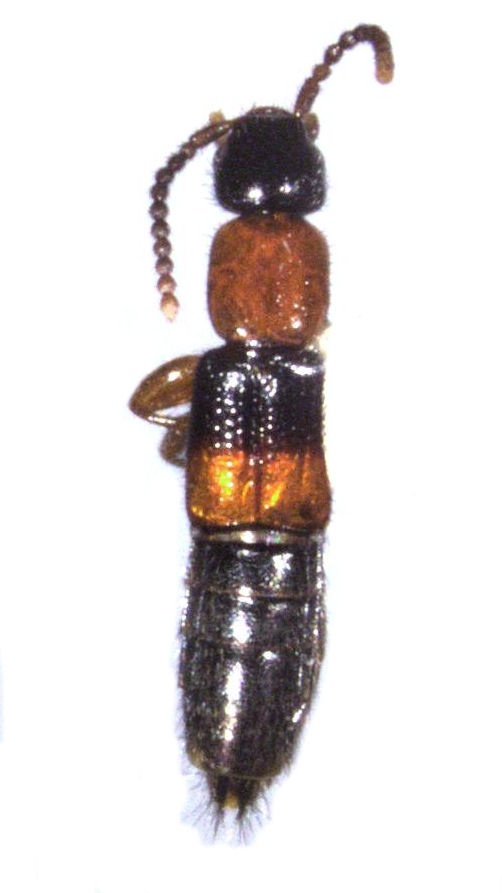 adult Lathrobium bipartitum. South Kaipara, Tupare Lake, track below meadow nr nesting shags amongst fern/kanuka/rewarewa by swamp, to light at night. New Zealand, Auckland, 11 Feb 2011, RF Gilbert, A Emmerson, N Hudson.